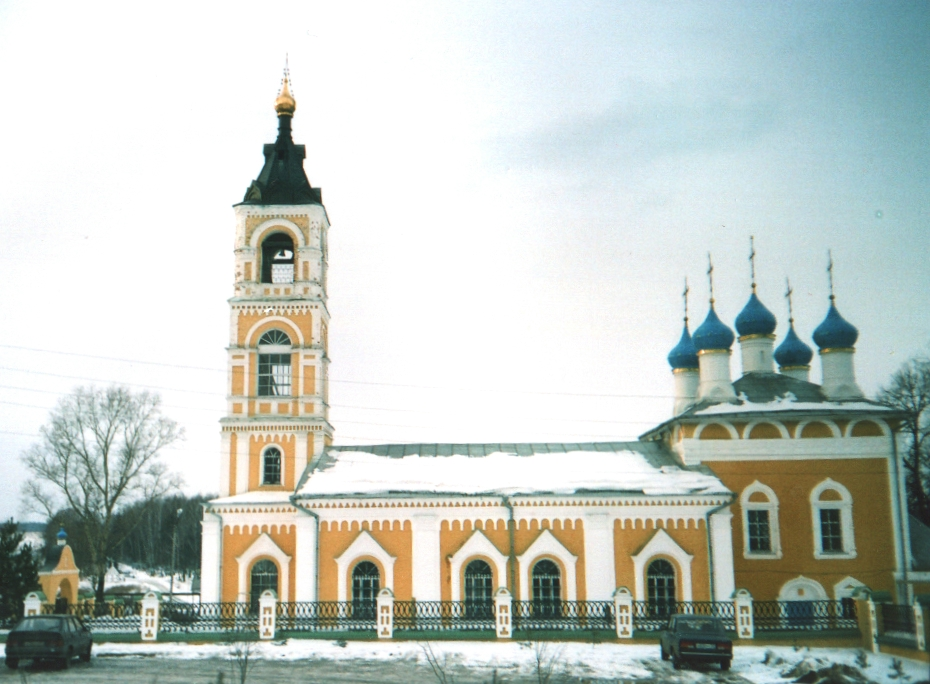 Church of icon of Our Lady of Kazan in Lakinsk